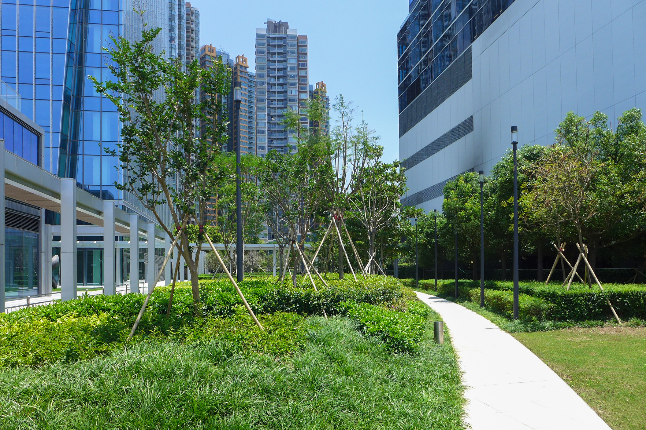 One HarbourGate open space